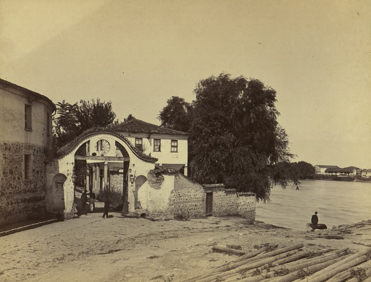 International Fair Plovdiv, Bulgaria, 1892